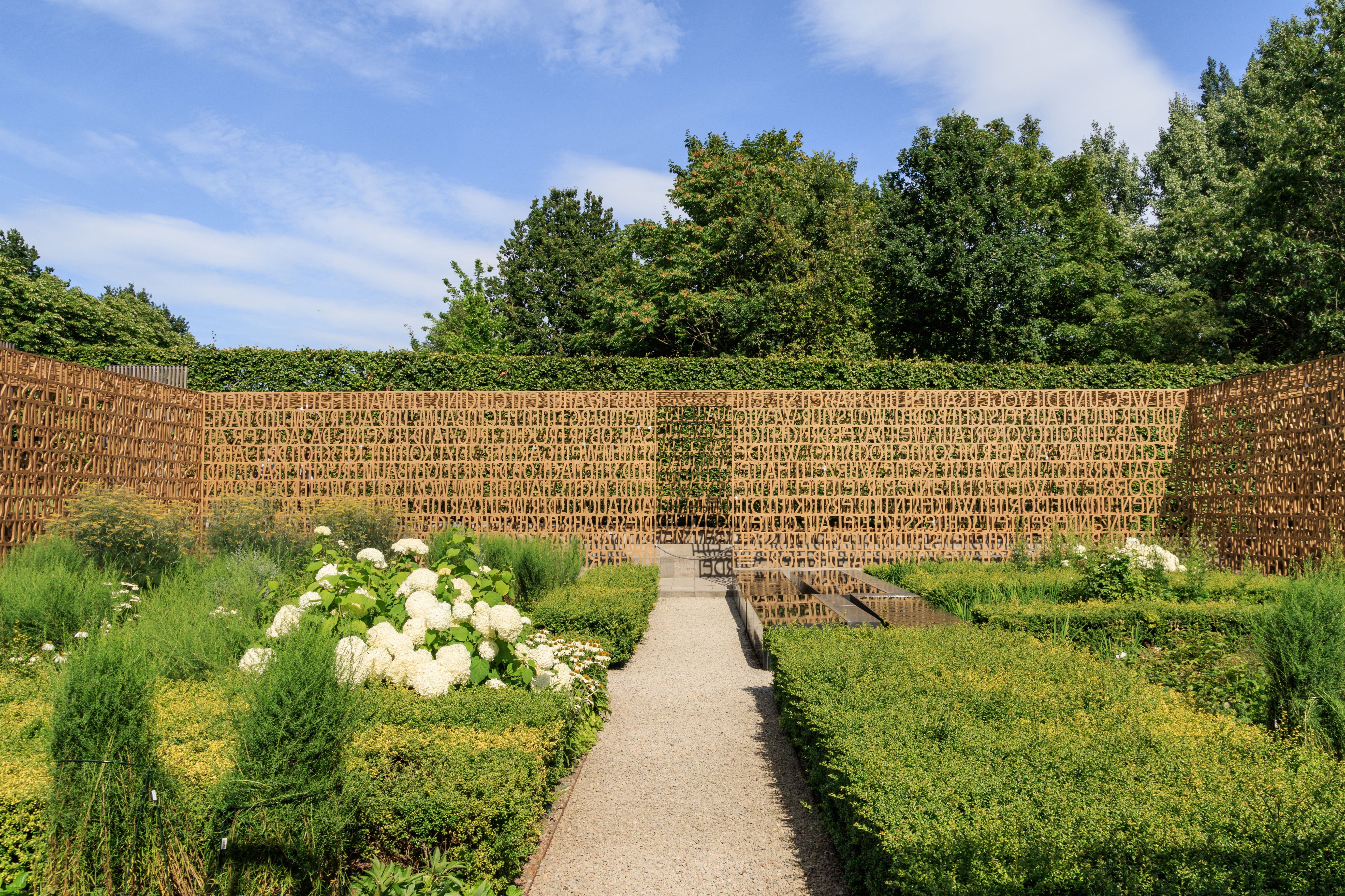 Berlin-Marzahn Gardens of the World: Christian Monastery Garden